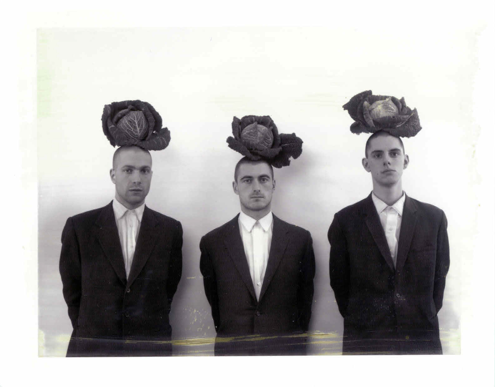 Photo of the Grey Organisation for Time Out magazine